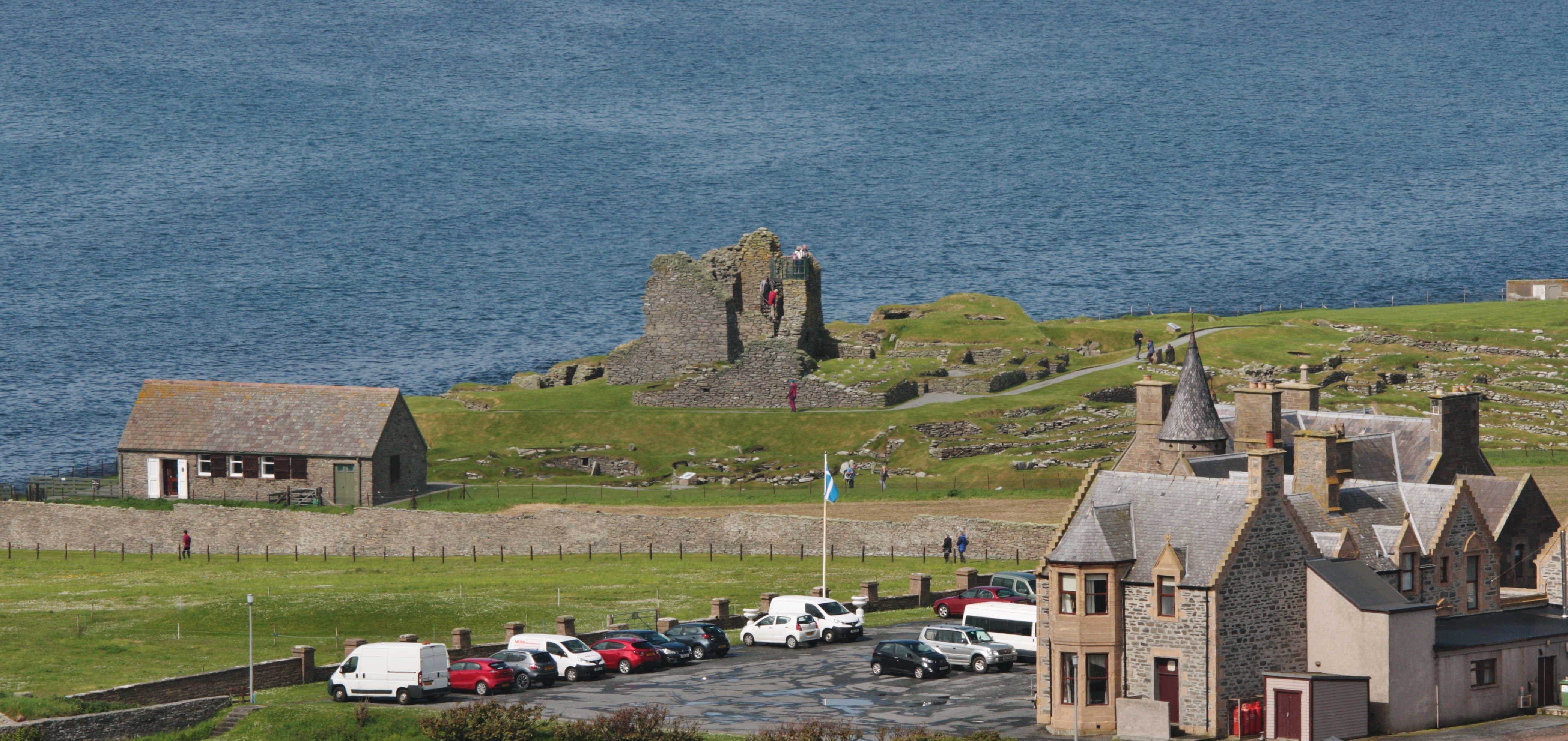 .. on a fine Sunday morning in June